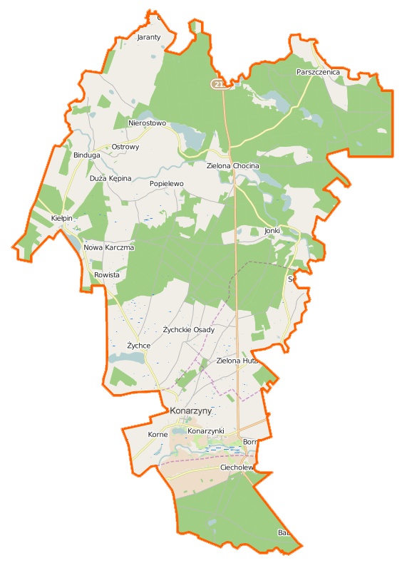 Map of Gmina Konarzyny, Poland This map of Konarzyny (gmina) was created from OpenStreetMap project data, collected by the community. This map may be incomplete, and may contain errors. Don't rely solely on it for navigation.